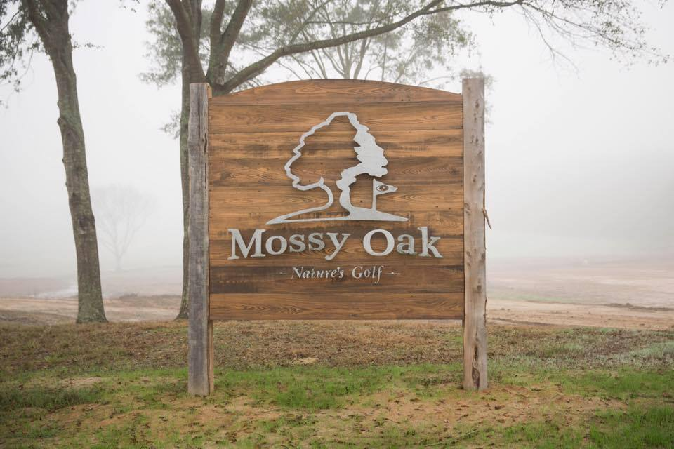 This is the sign for Mossy Oak Golf Club in West Point, MS, the most recent course completed from architect Gil Hanse.